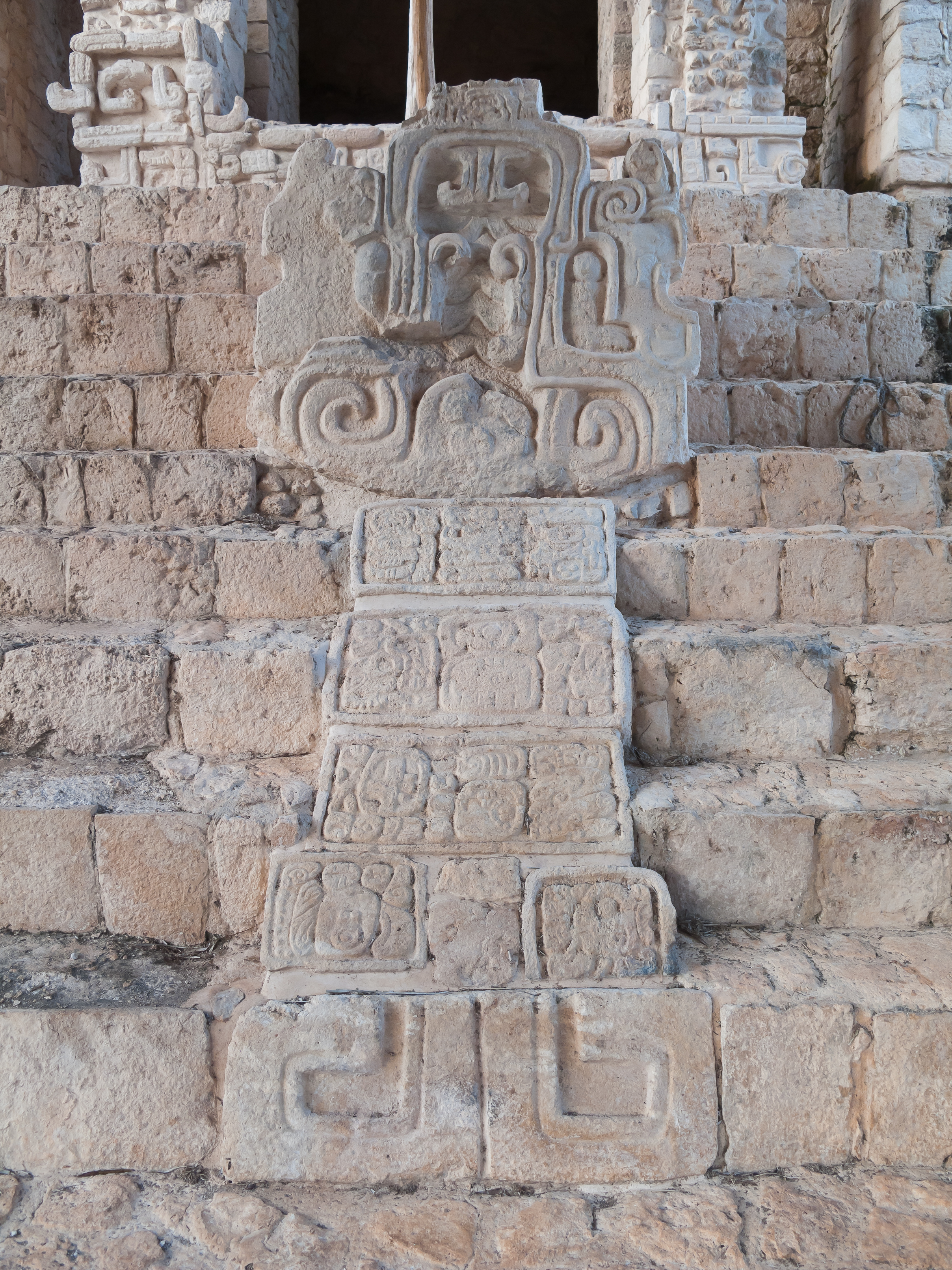 Head of serpent with Mayan writing, Ek' balam